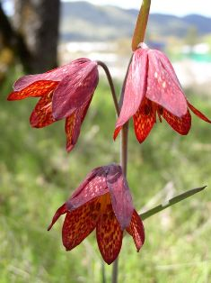 Fritillaria gentneri USFWS photo